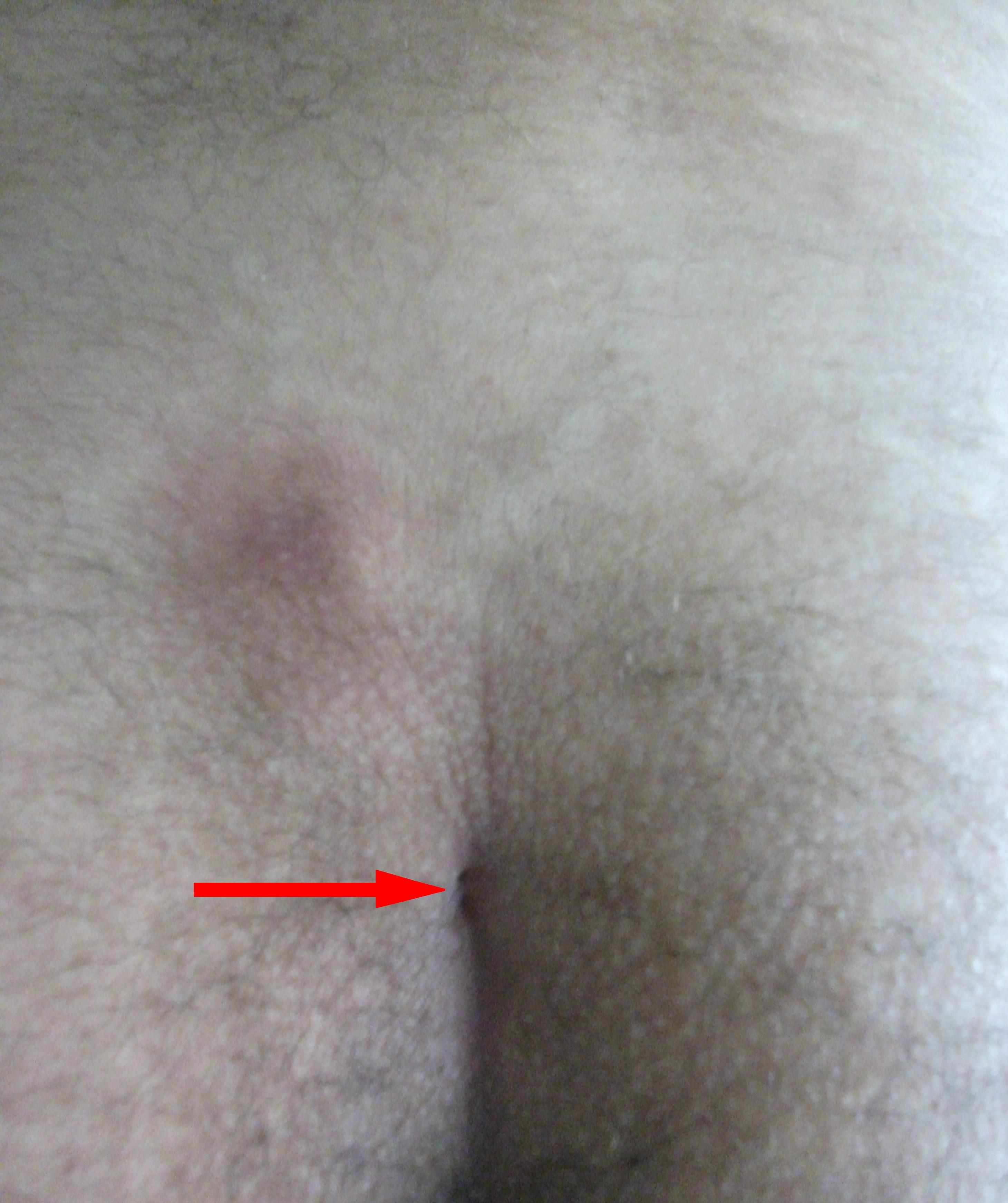 Pilonidal cyst in the gluteal cleft of an adult male.